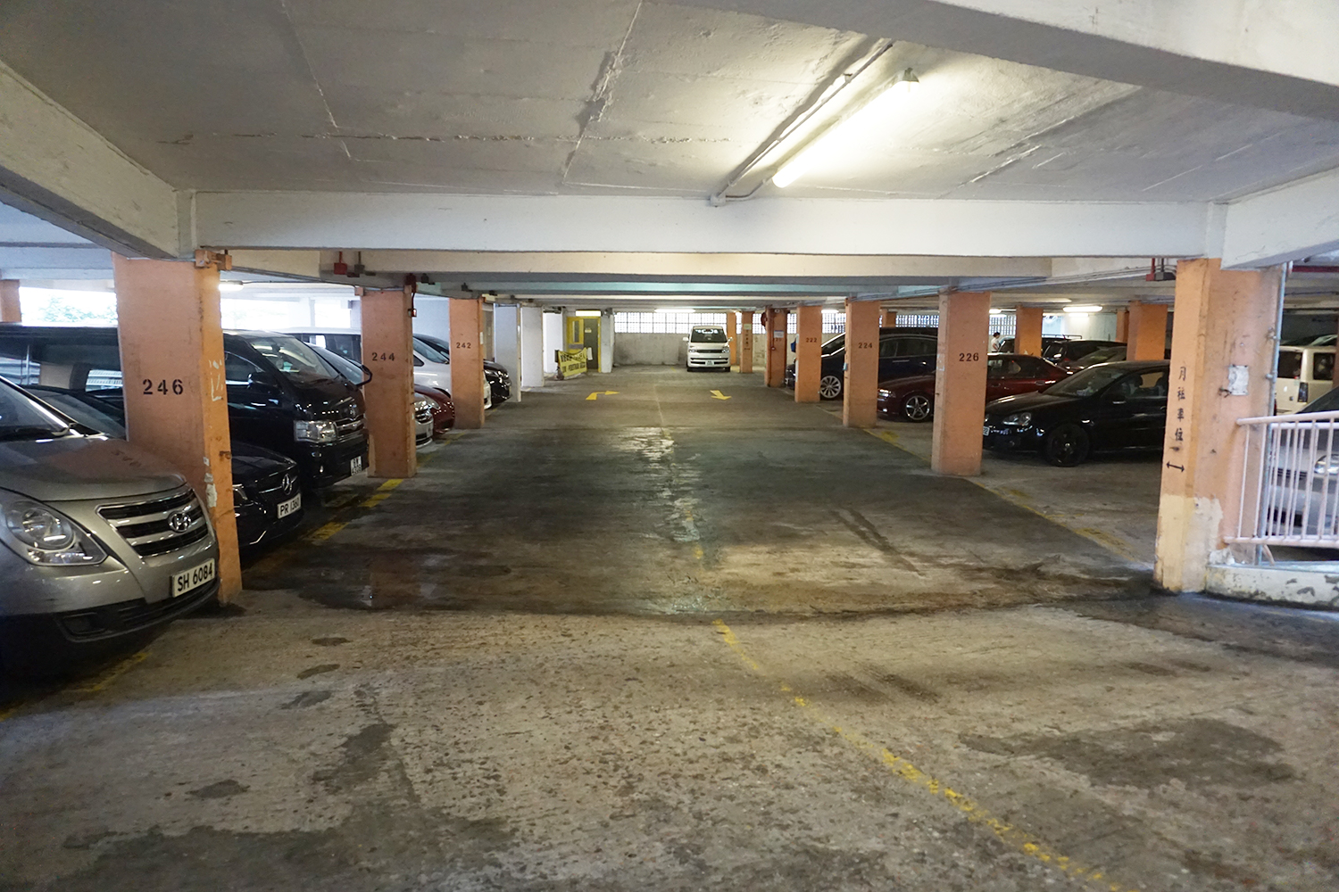 Wah Fu (II) Estate in Pok Fu Lam, Hong Kong.